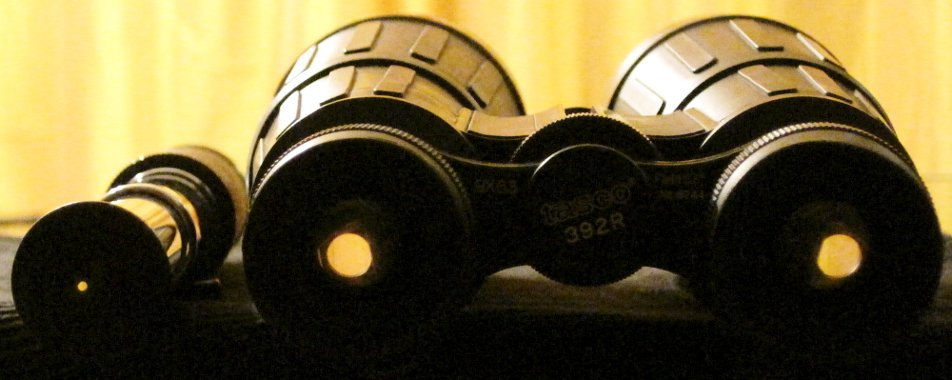 Comparision of exit pupils. Left: small telescope, 2 mm. Right: Binoculars for low light use, 7 mm. The exit pupil appears as discs on the eyepiece lenses of these 9×63 binoculars. Its diameter is 63 ÷ 9 = 7 mm.